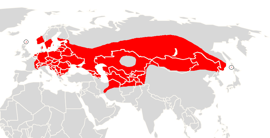 Parti-coloured Bat (Vespertilio murinus), range map, depending on the range map at IUCN red list